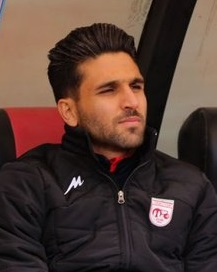 Sasan Ansari